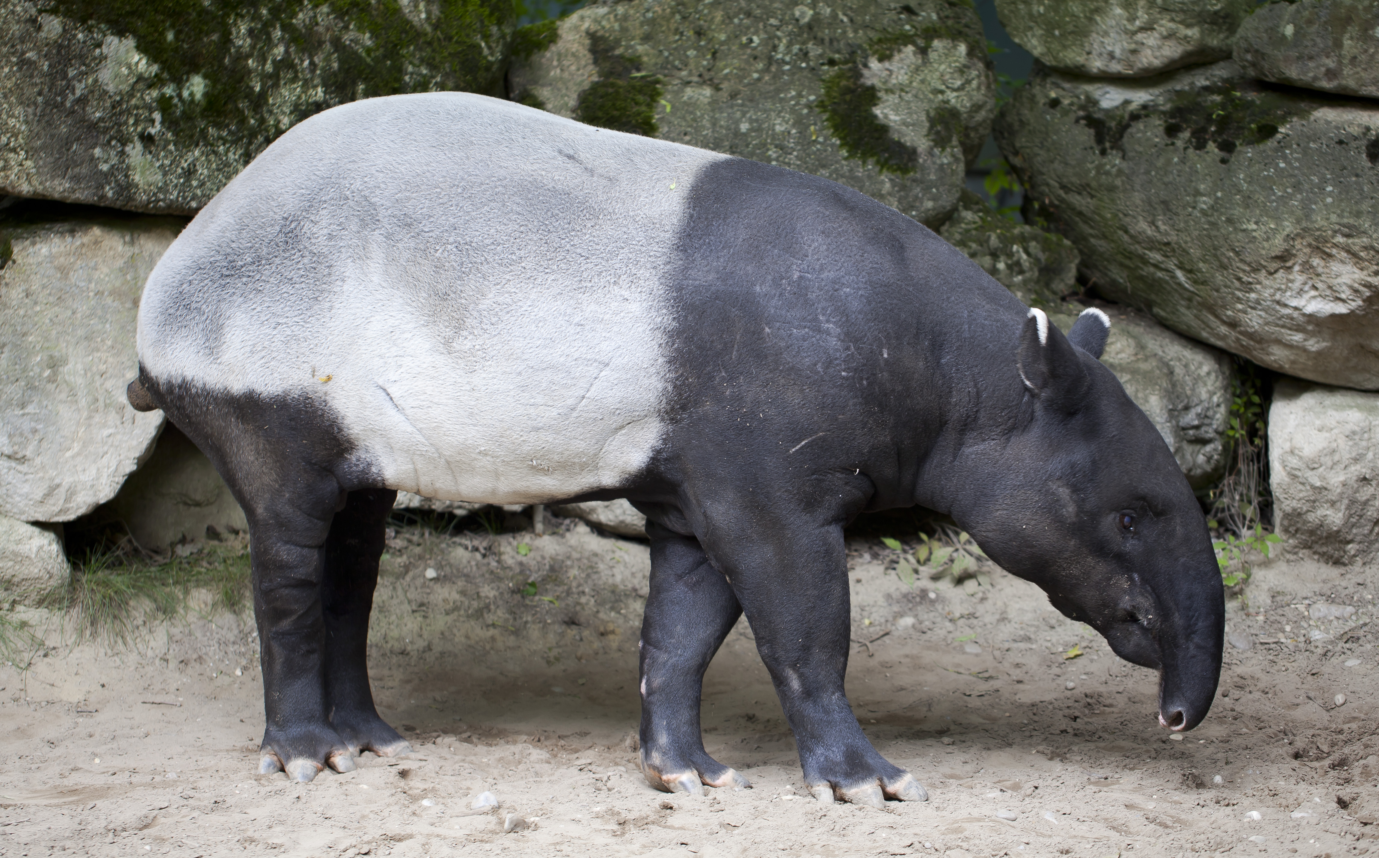 Malayan tapir (Tapirus indicus), Tierpark Hellabrunn, Munich, Germany